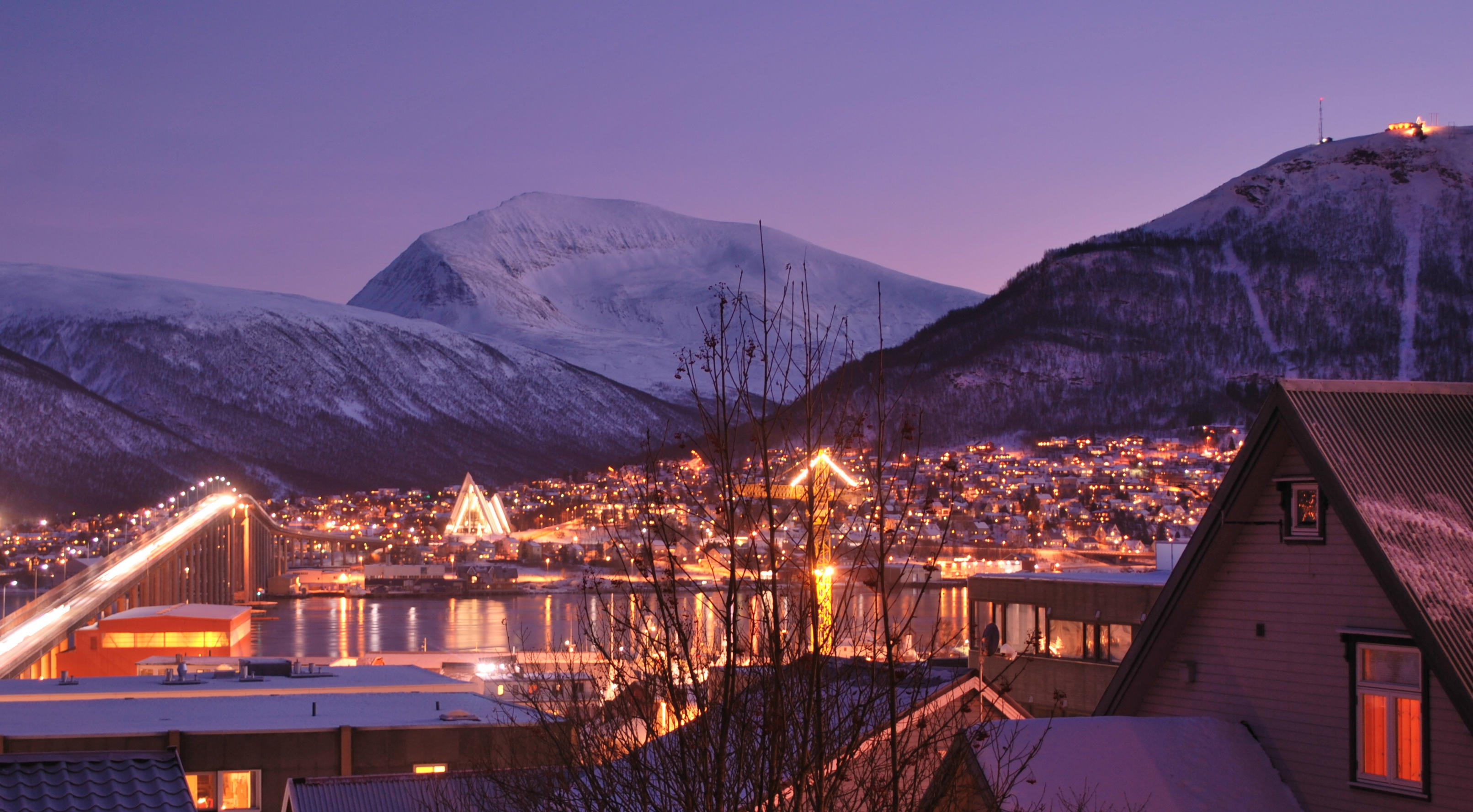 Early afternoon during the Polar Night, viewed from the upper reaches of Tromsø centre towards the mainland side.